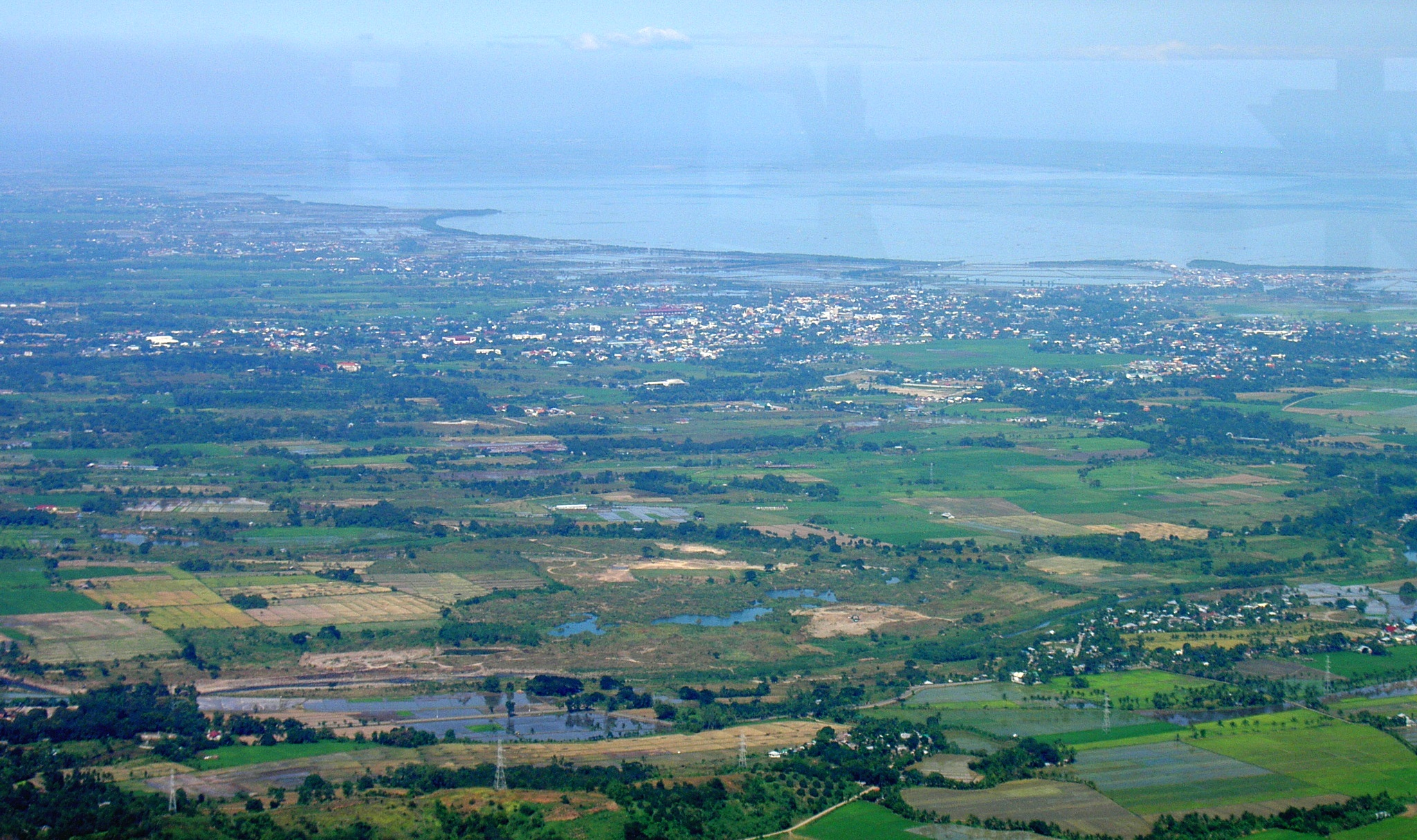 Balanga City, Bataan, seen from the crucifix on Mount Samat